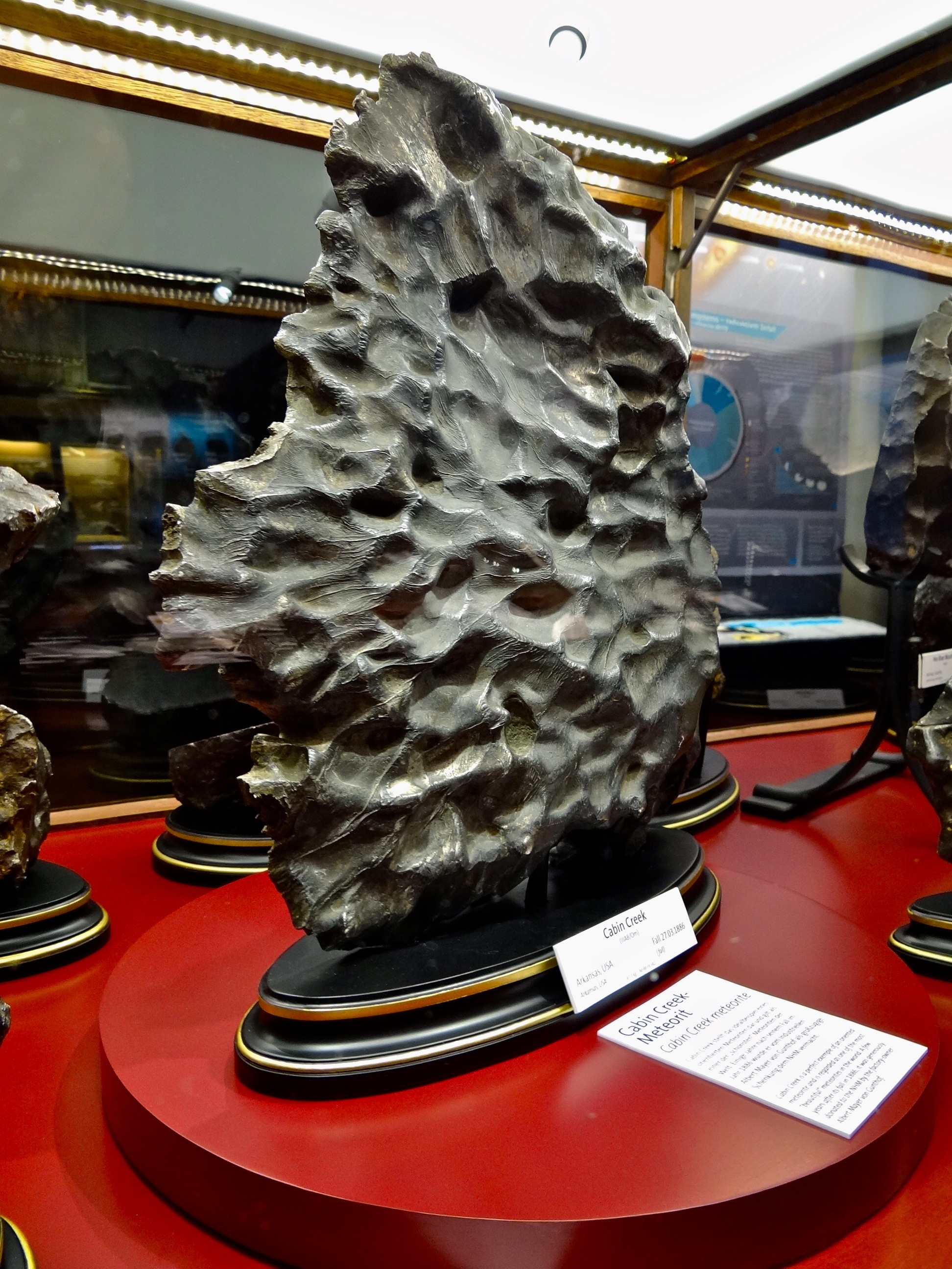 Cabin Creek meteorite. Iron meteorite found in 1886 in Arkansas, USA.